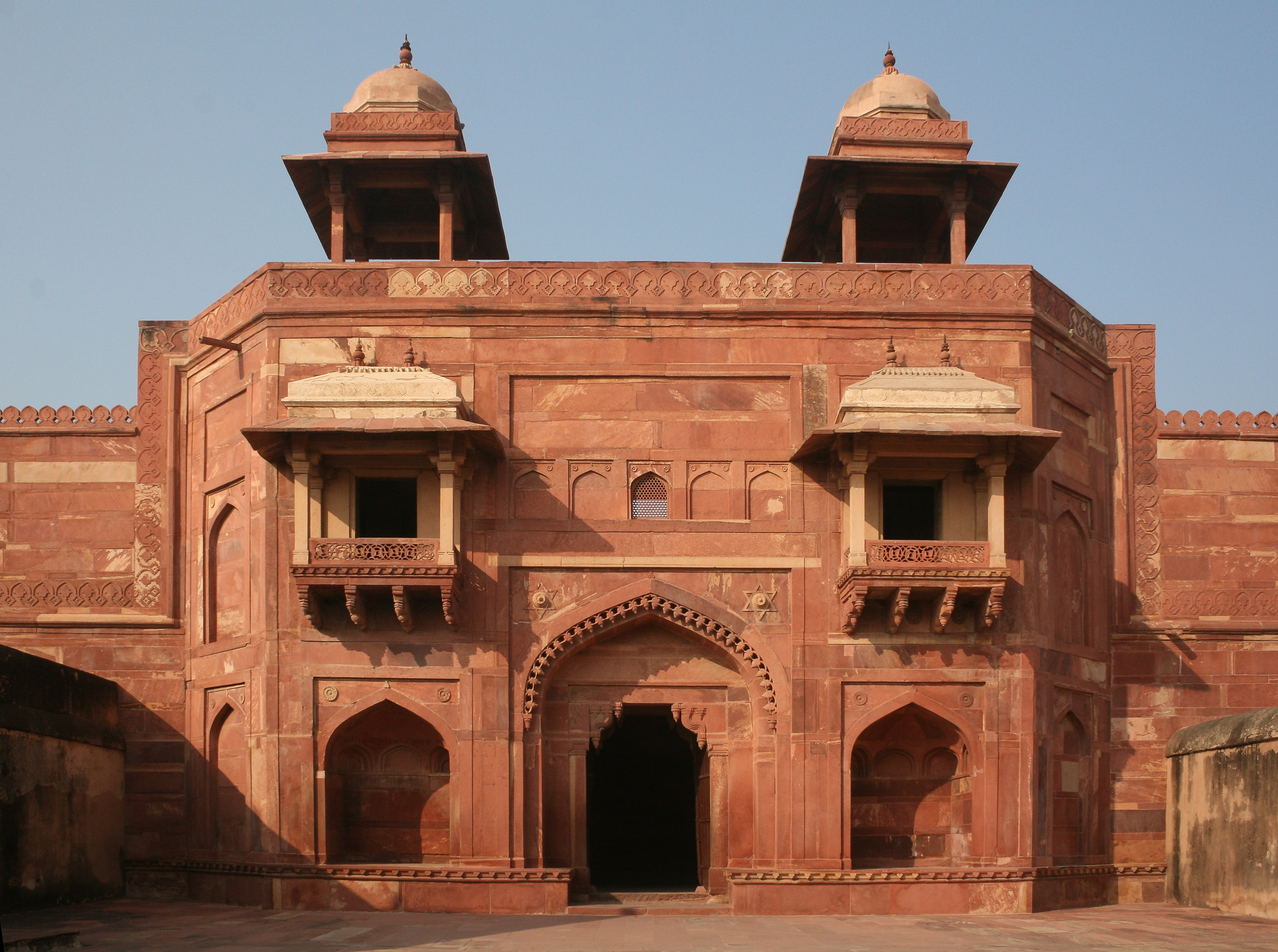 Fatehpur Sikri, India